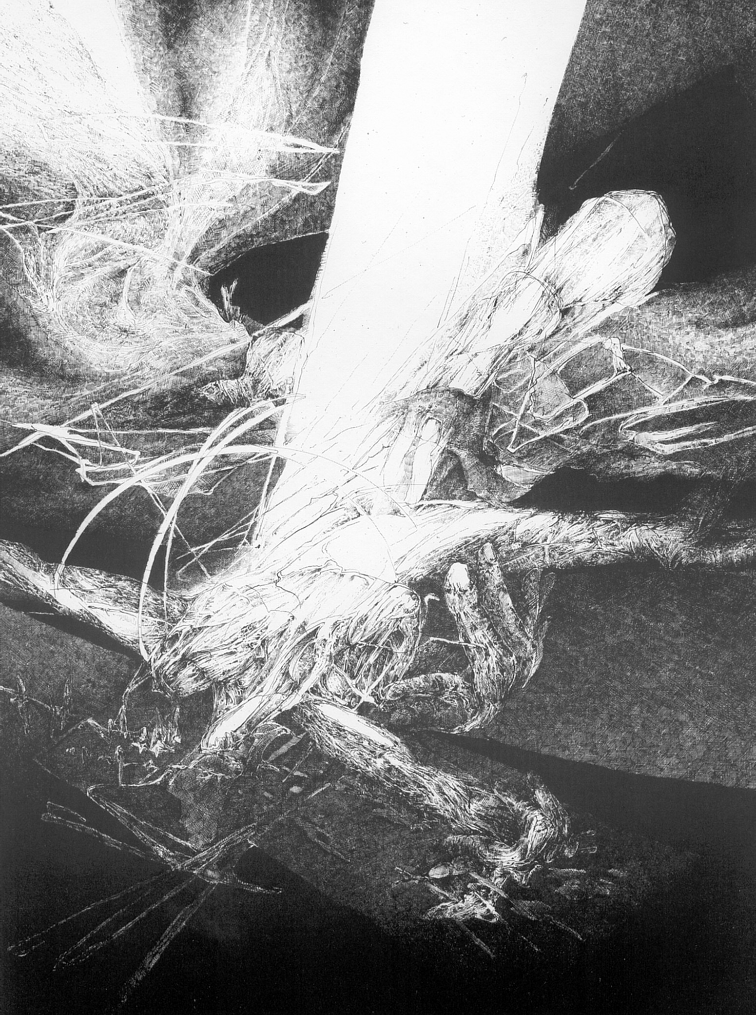 Paweł Warchoł - The Crucifixion from the series “Oratio”